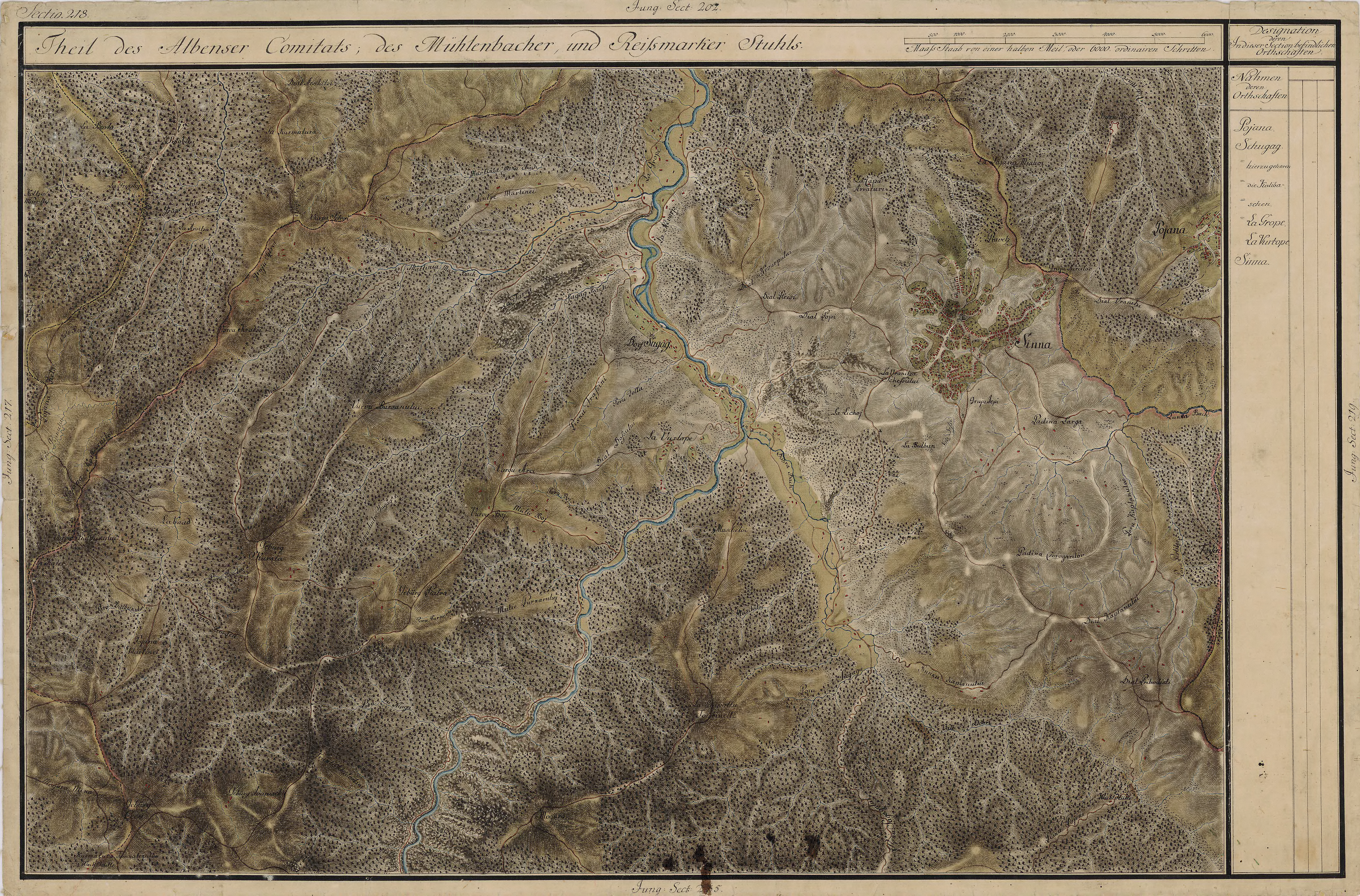 Grand Duchy of Transylvania, 1769-1773. Josephinische Landaufnahme pg.218Română: Harta Iosefină a Transilvaniei, 1769-1773. Josephinische Landaufnahme pg.218